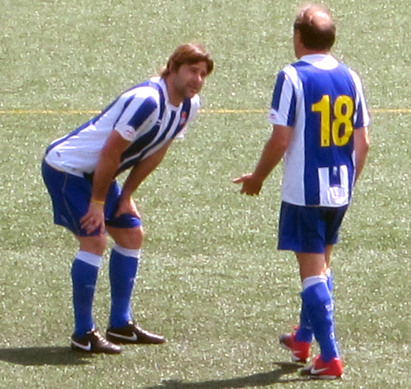 RCD Espanyol coach, during a veteran match